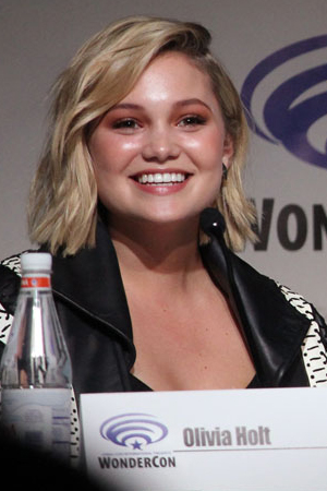 Olivia Holt at WonderCon 2018